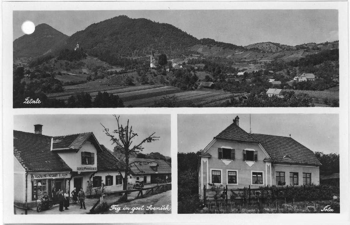 Postcard of Žetale